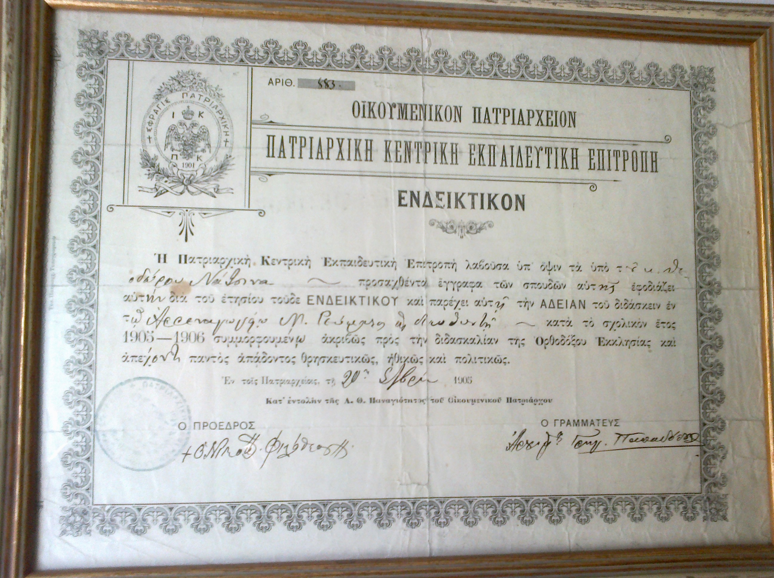 Certificate from The Ecumenical Patriarchate for the ability of Theodoros Natsinas to Direct Hellenic (Greek) College.